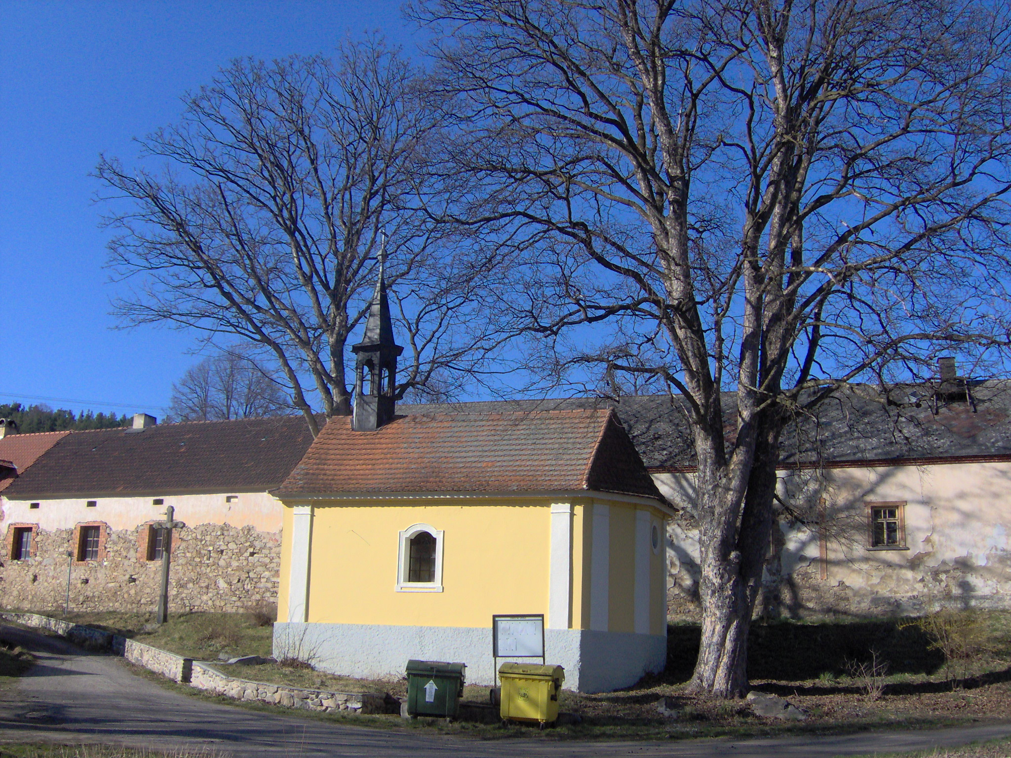 Smiradice, part of Sousedovice, Strakonice District, Czech Republic.